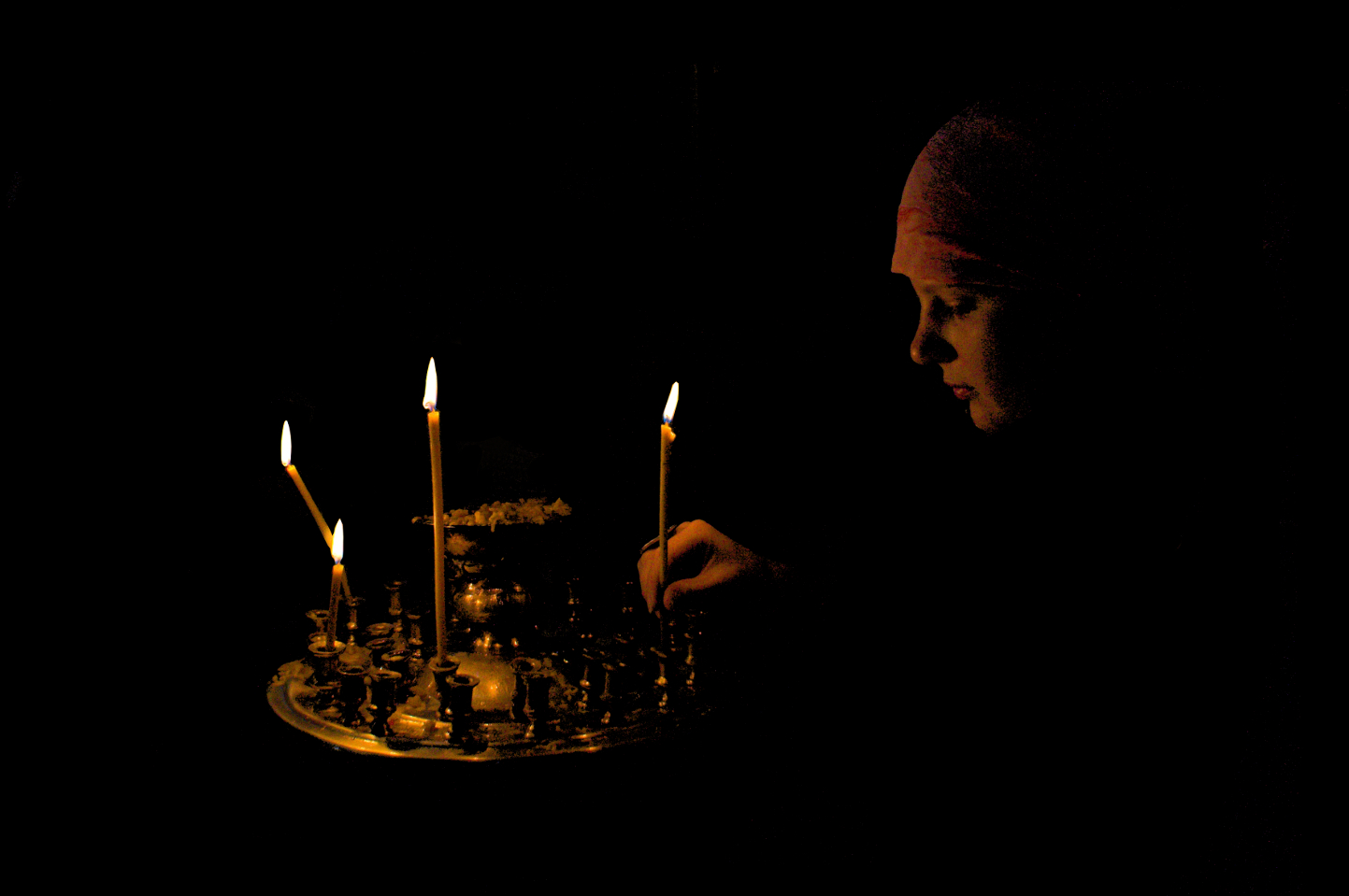 Lighting a candle in Orthodox church. Saint Volodymyr's Cathedral, Kiev, Ukraine.